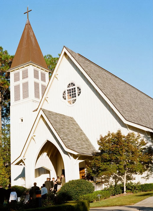 St. James Episcopal Church in Fairhope, Alabama